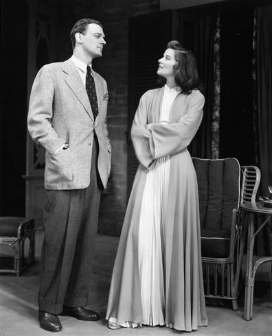 Photograph of Joseph Cotten and Katharine Hepburn in the 1939 stage production The Philadelphia Story Feature story is titled "Philadelphia Story on Clothes" (no author credit) Photo caption reads as follows: A robe d'intérieur, with a lipstick-red coat and the world-renowned Hepburn umph!, fired her decision to cut loose.